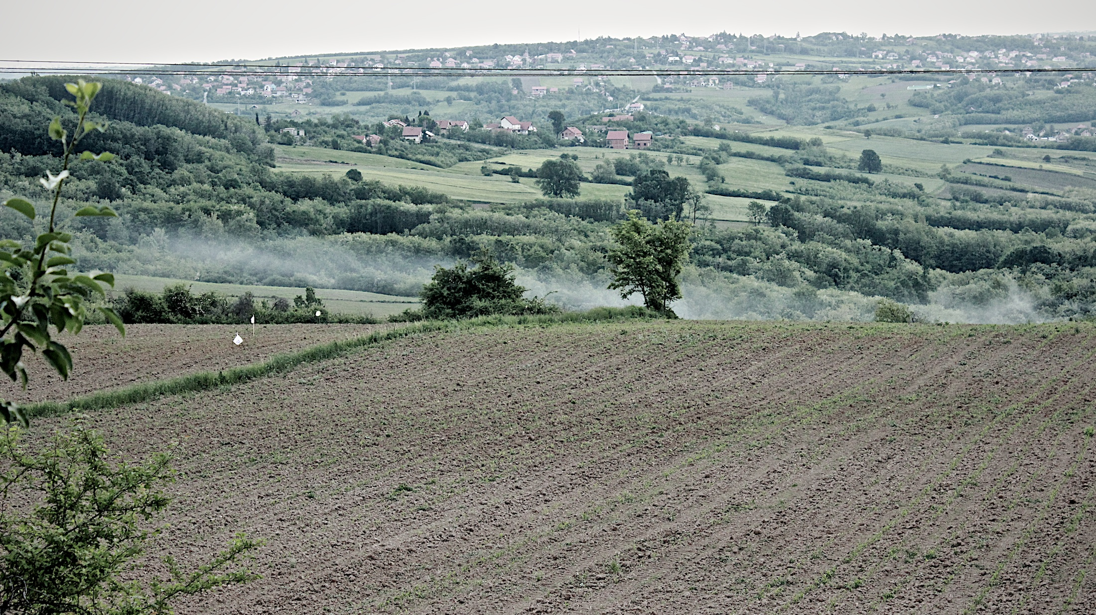 hilly village of Mislođin.